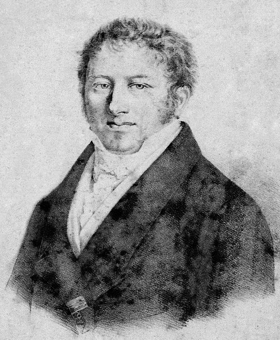 Claus von der Decken 1782-1839 Judge in the town of Harburg